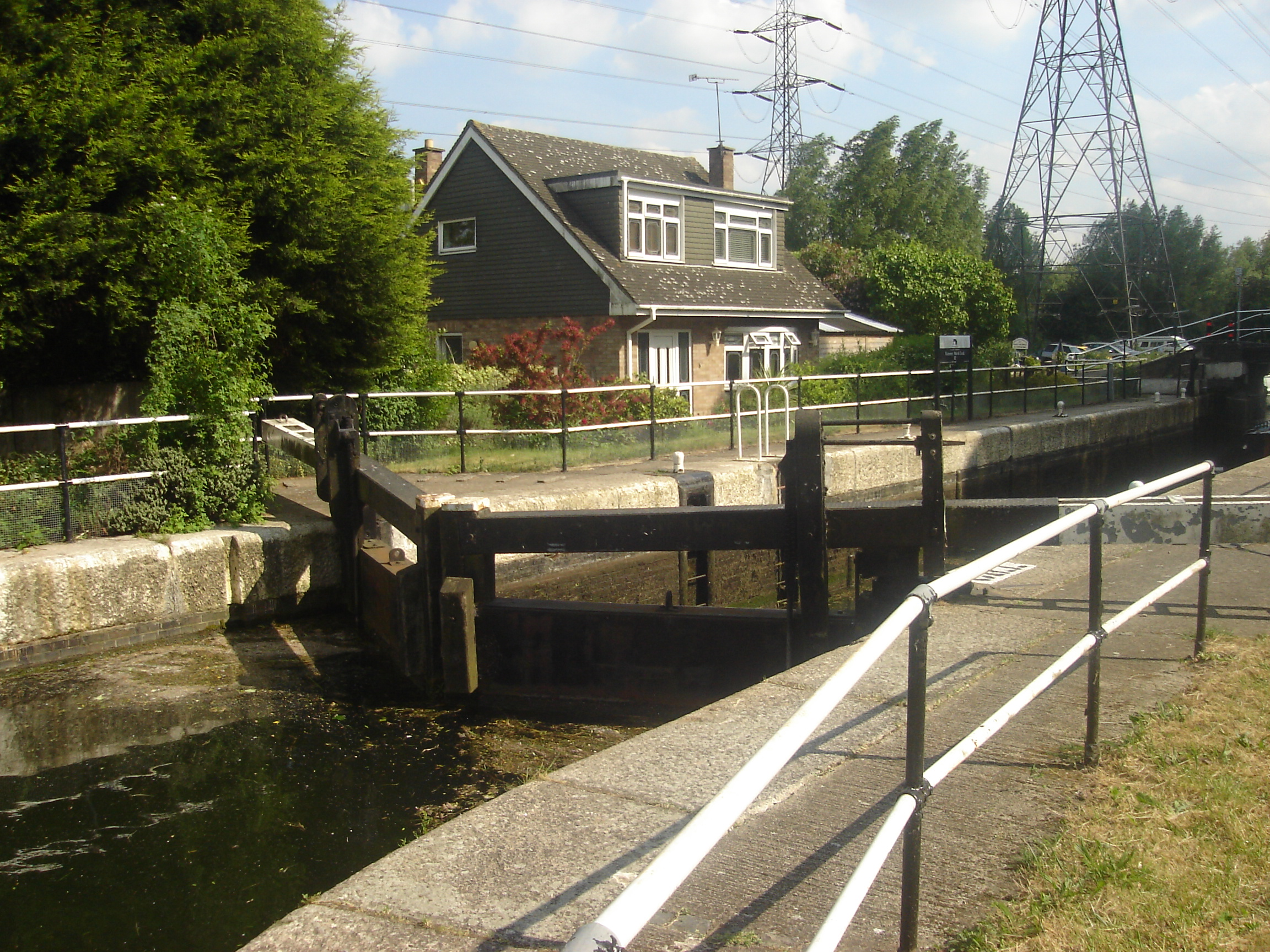 Picture of Rammey Marsh Lock, Enfield